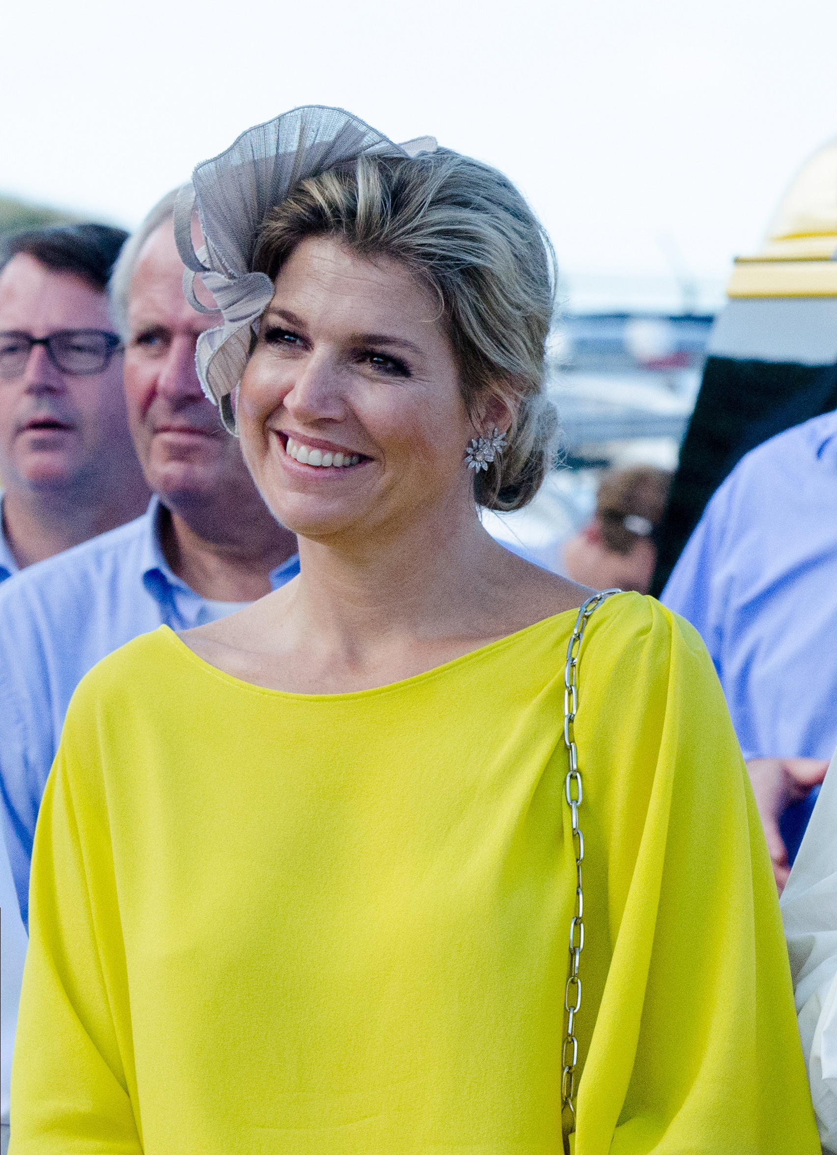 Queen Maxima 2013 Dutch Caribbean Tour.